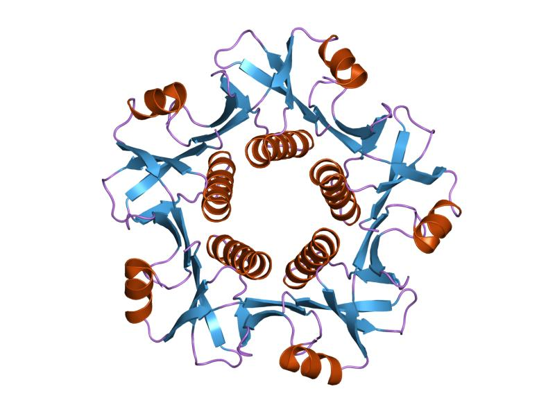 Cartoon representation of the molecular structure of protein registered with 1qcb code.